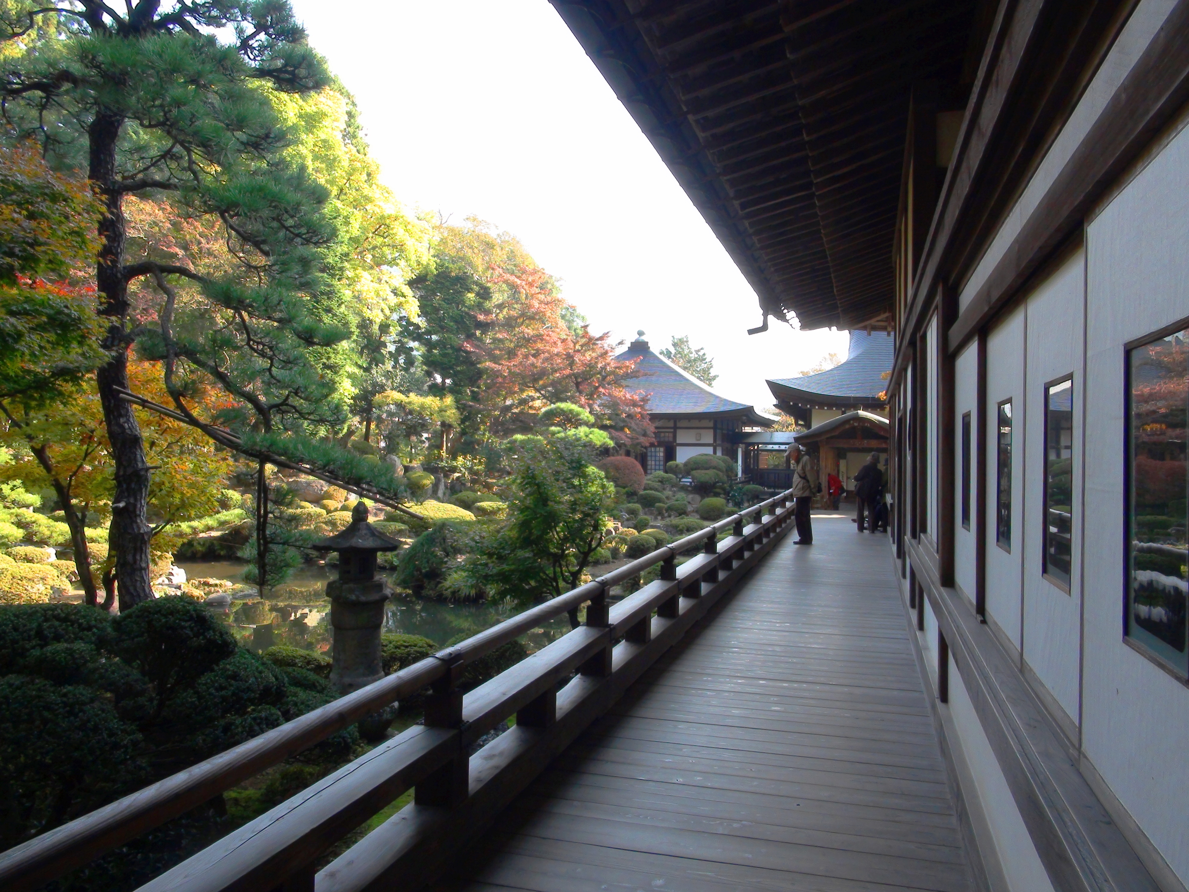 Erinji garden and Corridors